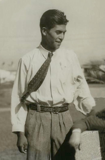 1932 Press Photo Mexican Olympian Vincente Mayagoitis & Magarito Pomposo